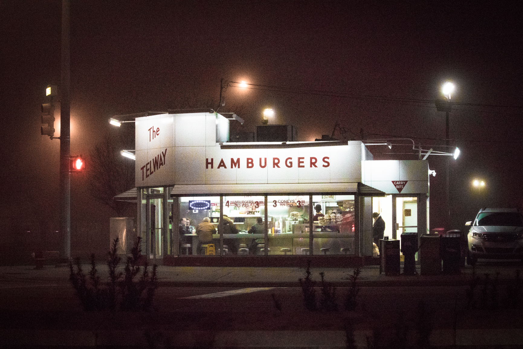 Telway Hamburgers at the corner of John R and 11 Mile Rd in Madison Heights, MI